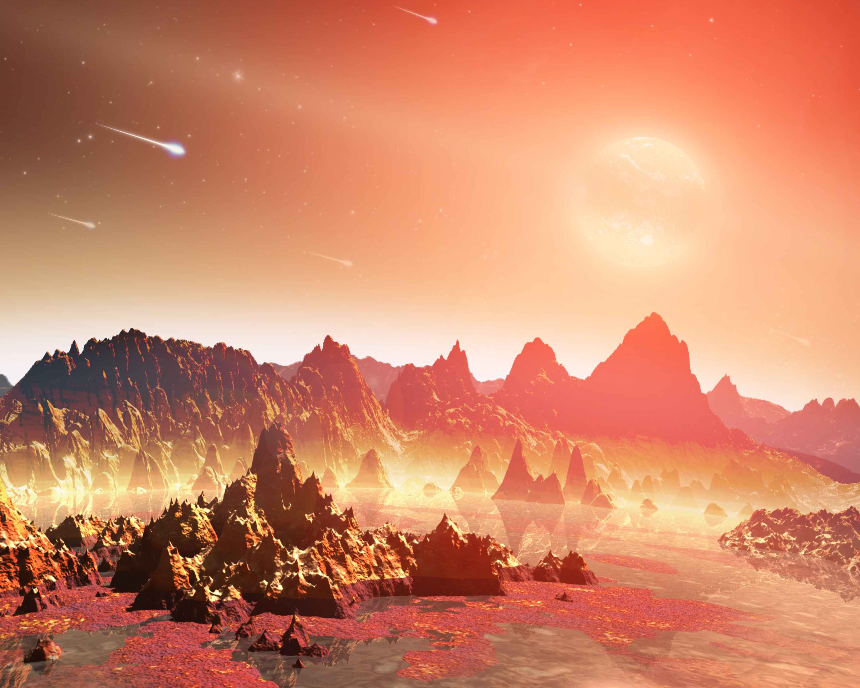 This artist's conception shows a hypothetical young planet around a cool star. A soupy mix of potentially life-forming chemicals can be seen pooling around the base of the jagged rocks. Observations from NASA's Spitzer Space Telescope hint that planets around cool stars -- the so-called M-dwarfs and brown dwarfs that are widespread throughout our galaxy -- might possess a different mix of life-forming, or prebiotic, chemicals than our young Earth.